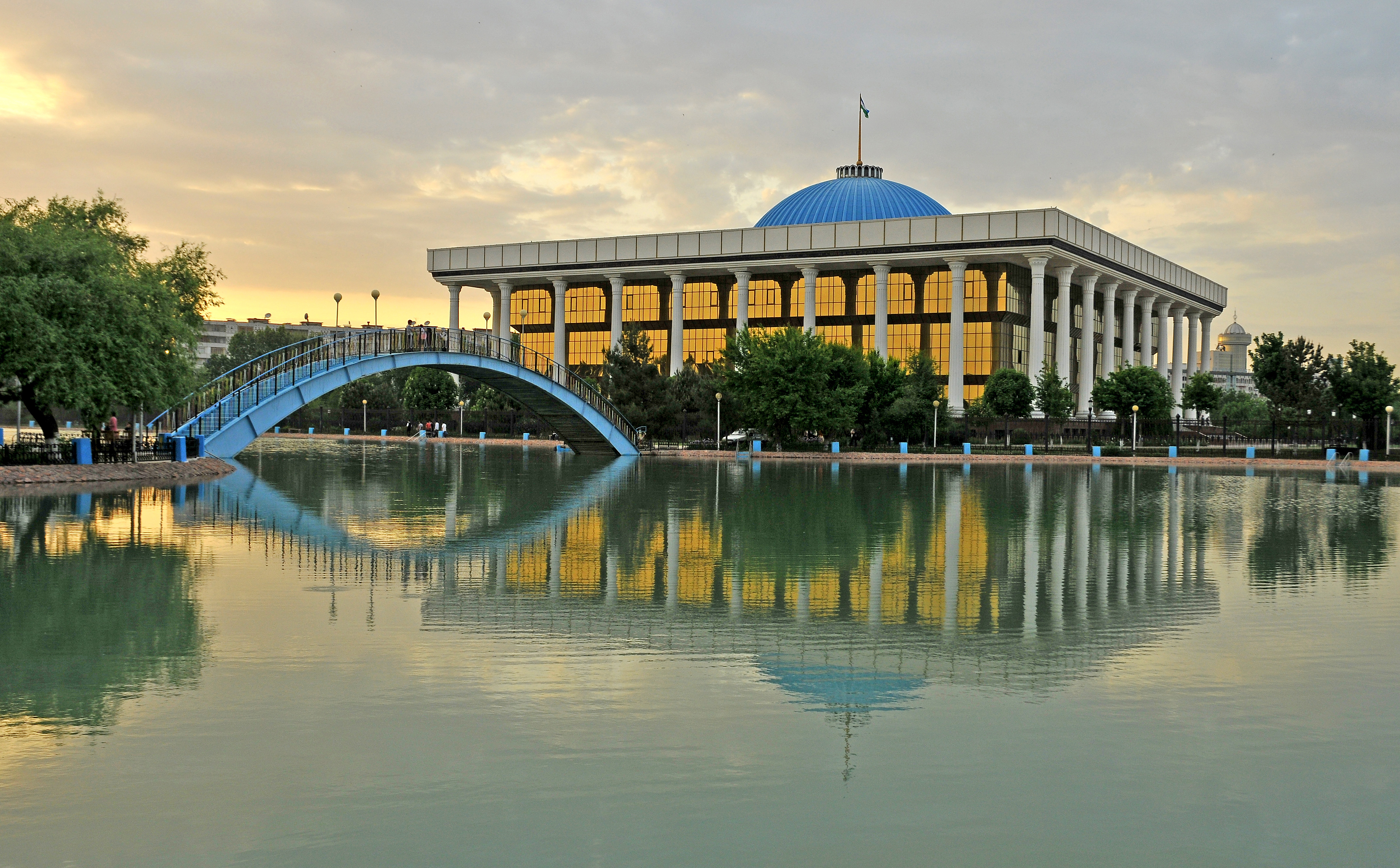 Parliament (Supreme Assembly) building; Navoi Park. Tashkent, Uzbekistan